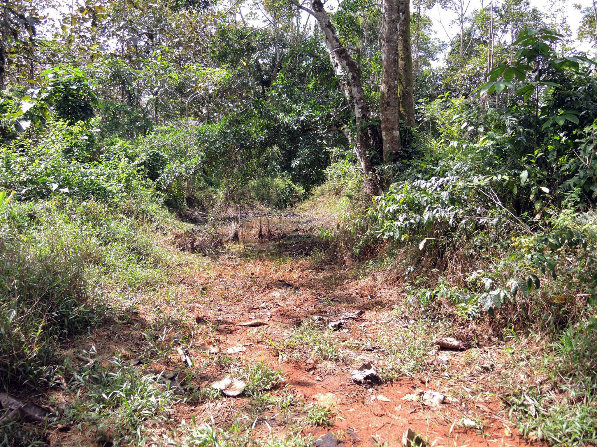 Habitat of Erythrodiplax fervida